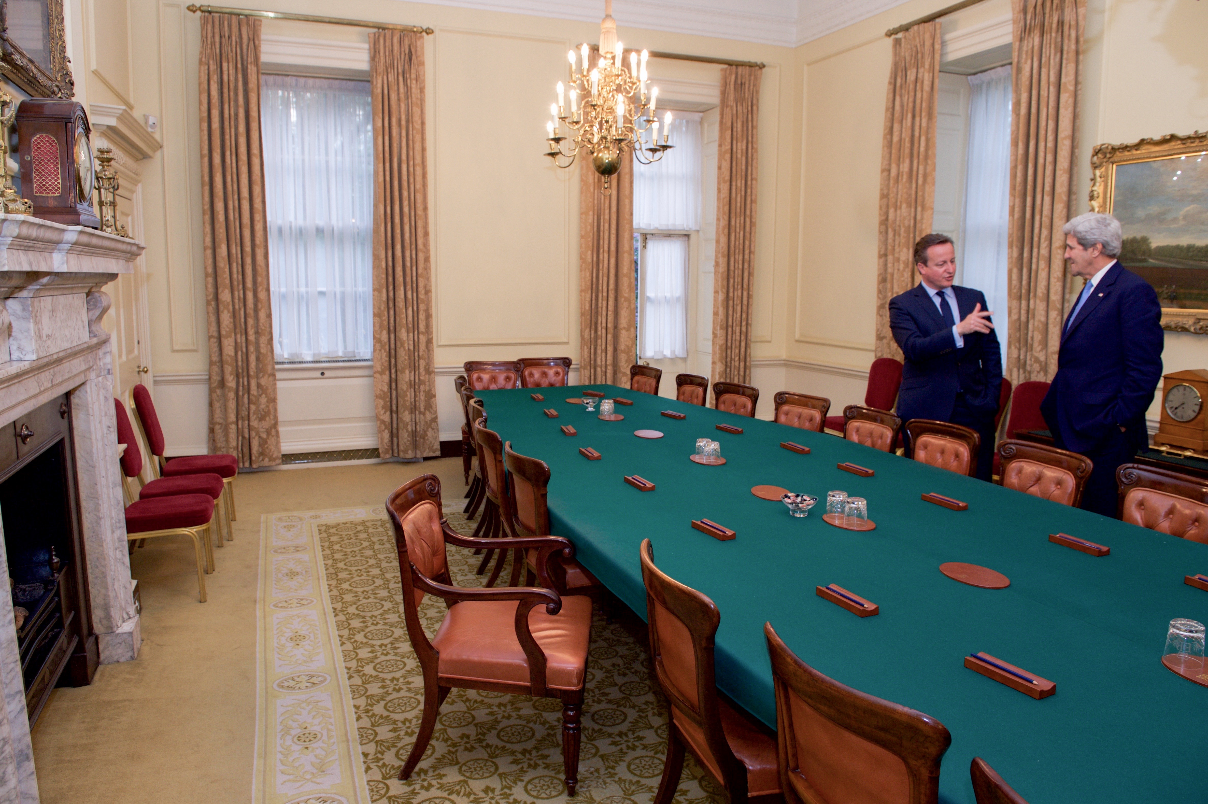 British Prime Minister David Cameron shows U.S. Secretary of State John Kerry the Cabinet Room at 10 Downing Street in London, U.K., with the Prime Minister's armchair angled for easy access, after the two held a bilateral meeting in advance of an anti-corruption summit being hosted by the British leader. [State Department photo/ Public Domain]